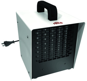 Frico fanheater k21